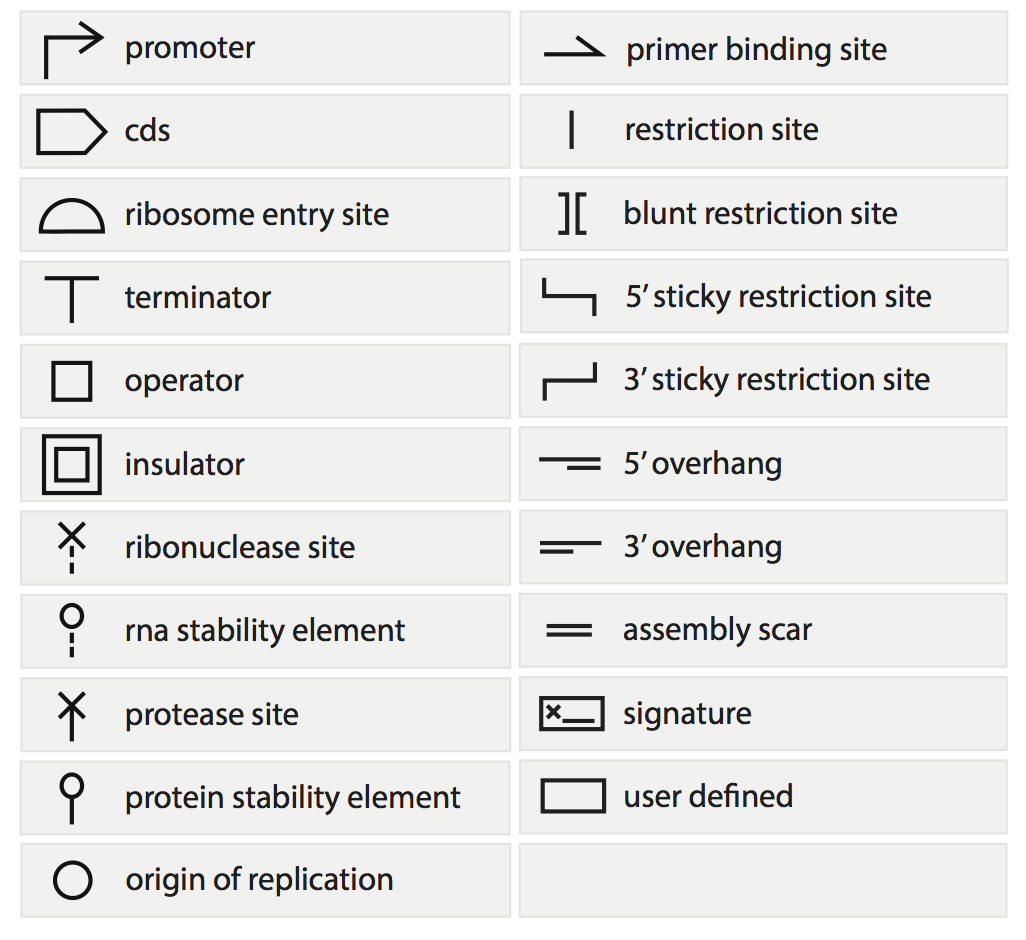 A consistent visual standard designed by the SBOL visual group for use with BioBricks Standard